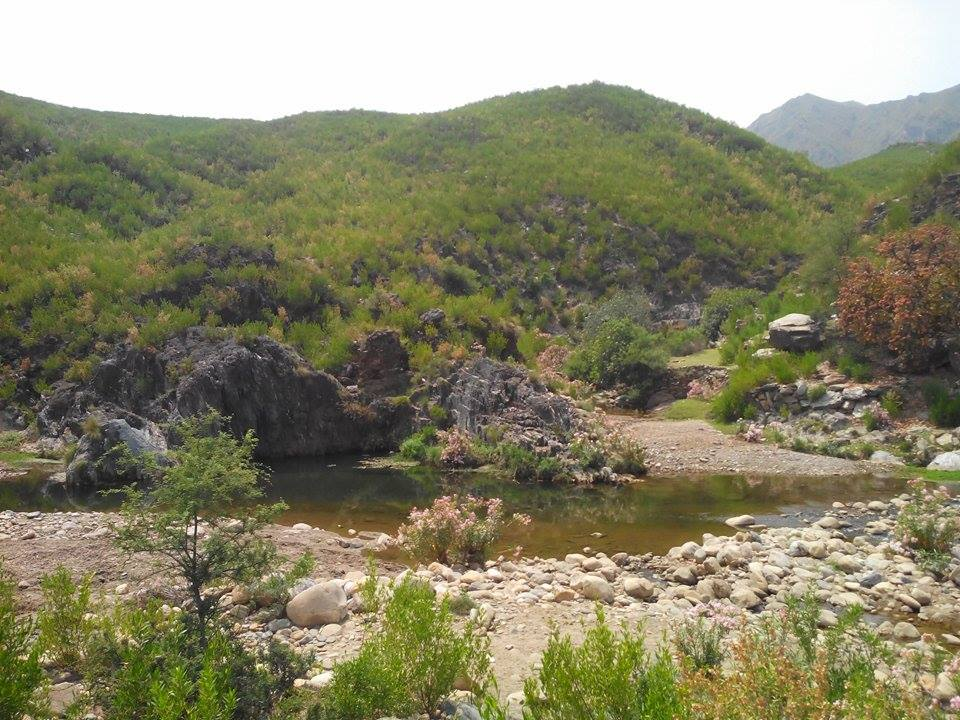 Local picture at our home village KP Pakistan